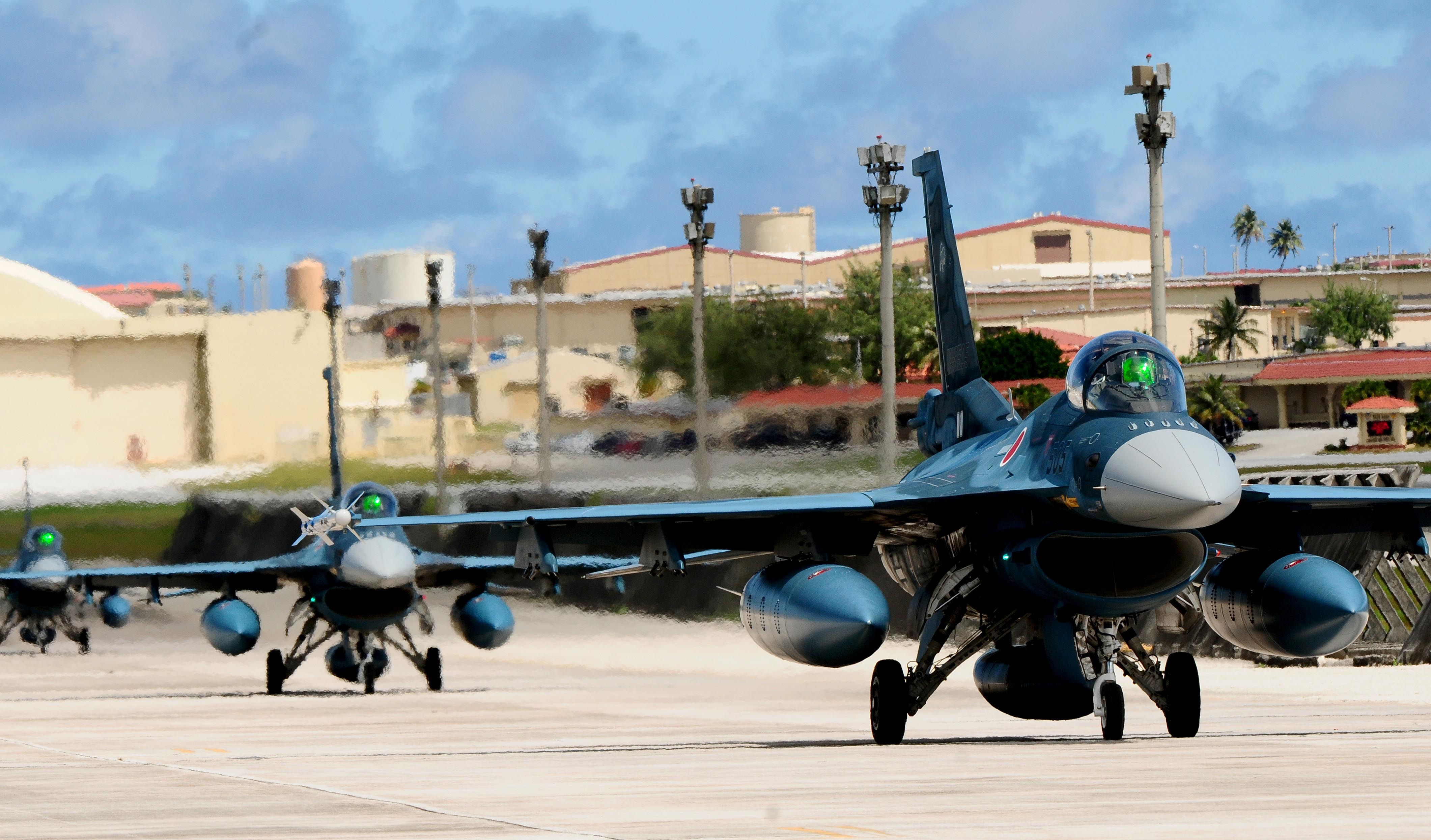 ANDERSEN AIR FORCE BASE, Guam - Japan Air Self Defense Force F-2A fighters of 8 sqn taxi after arriving here Feb. 11, for the exercise Cope North 11-1. This will be the 11th time the United States and Japan have held a Cope North exercise on Guam and the largest in scope to date. (U.S. Air Force photo/ Airman 1st Class Jeffrey Schultze) Nikon D300